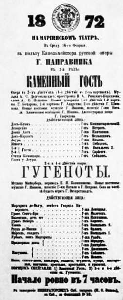 Affiche for the premiere of The Stone Guest at the Mariinsky Theatre (1872)